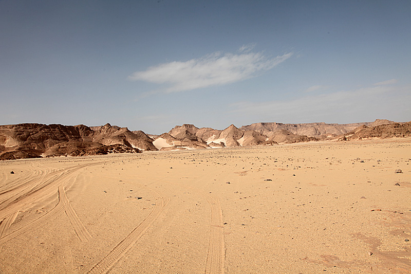 Entrance of Wadi Sura, Western Desert, Egypt & Sudan